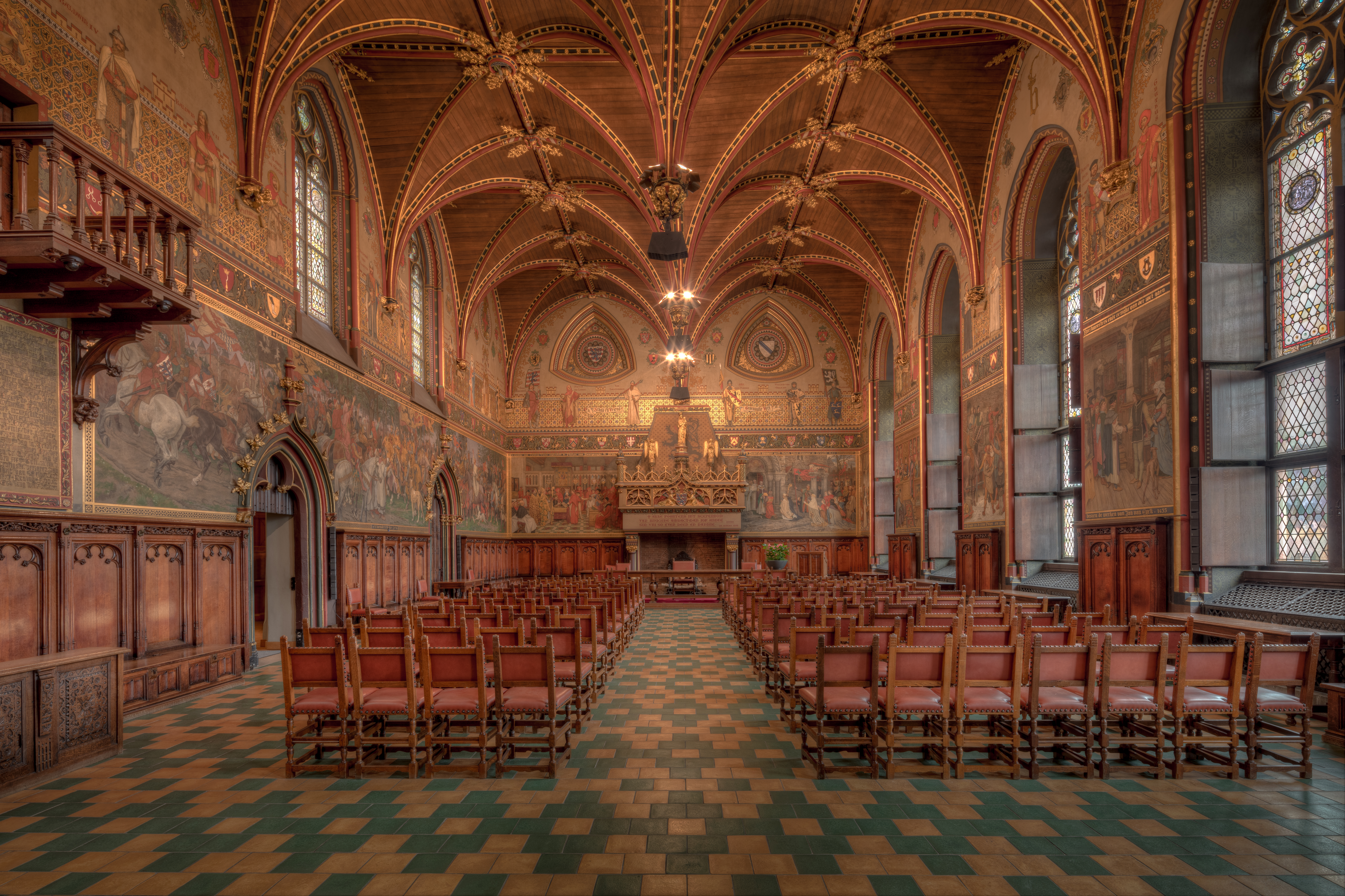 Here is an hdr photograph taken from Bruges City Hall. Located in Bruges, Belgium. (Taken with kind permission of the administration)